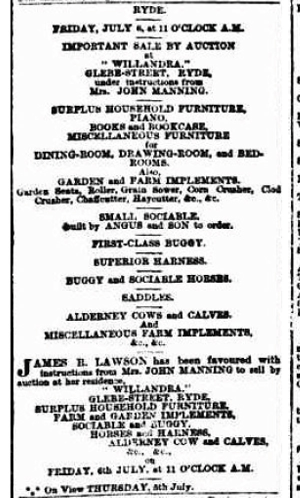 Advertisement for furniture for sale at Willandra by Mrs John Manning in 1894